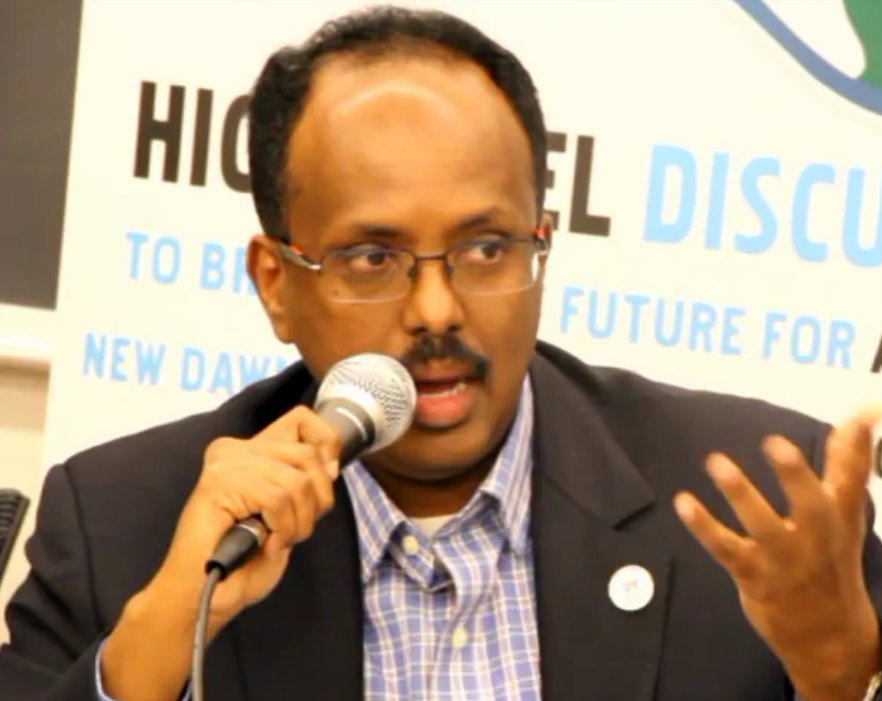 Somali diplomat, professor and politician Mohamed Abdullahi Mohamed "Farmajo", former Prime Minister of Somalia and founder and Secretary-General of the Tayo Political Party.